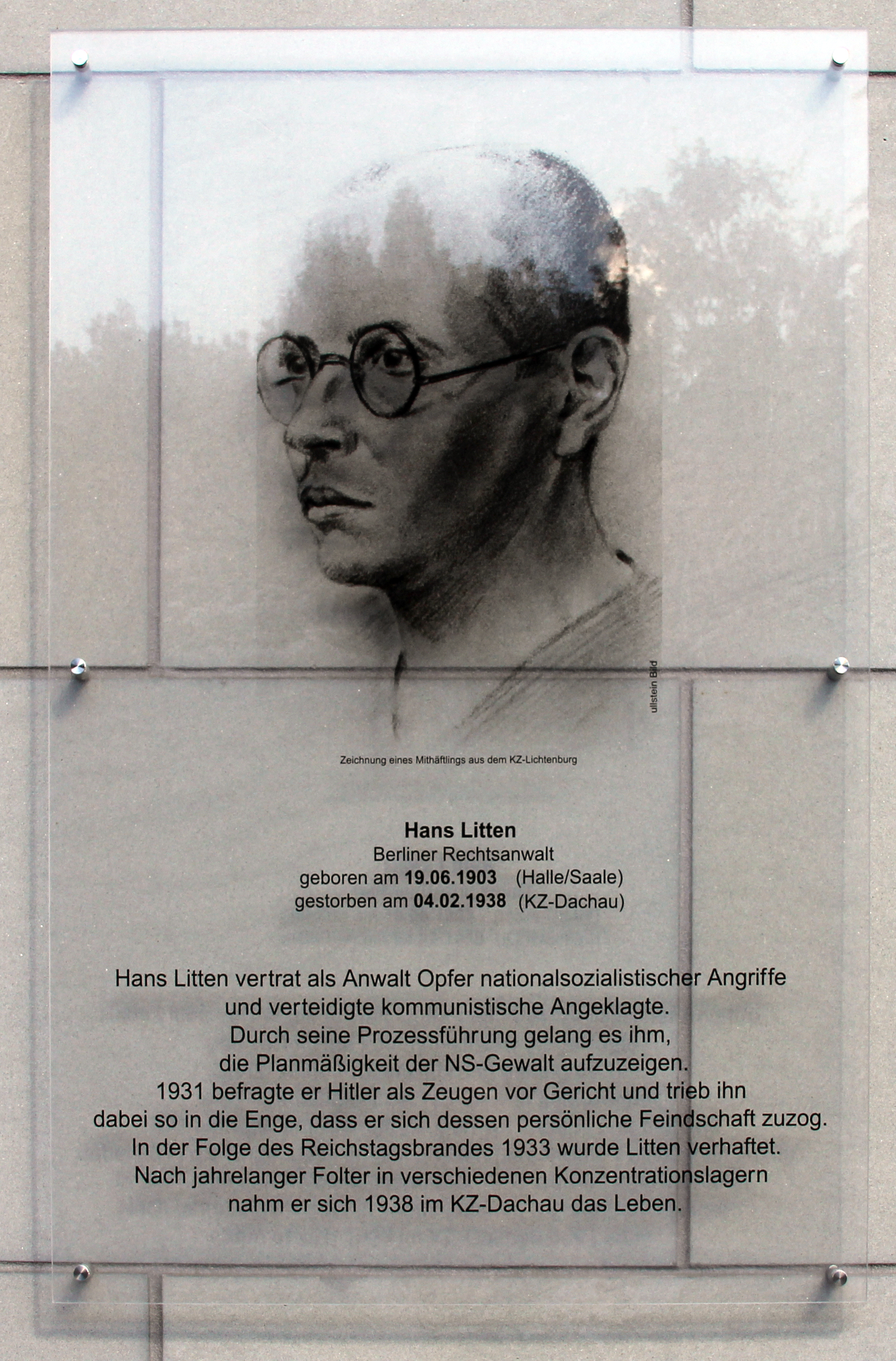 Memorial plaque, Hans Litten, Littenstraße 9, Berlin-Mitte, Germany